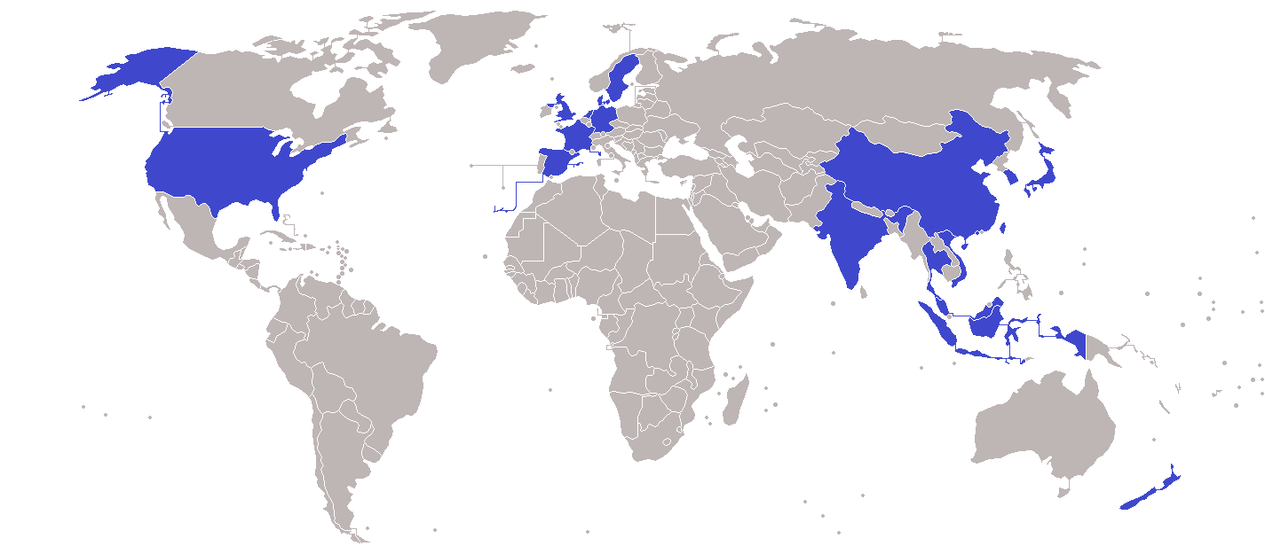 World Badminton Championships medalists